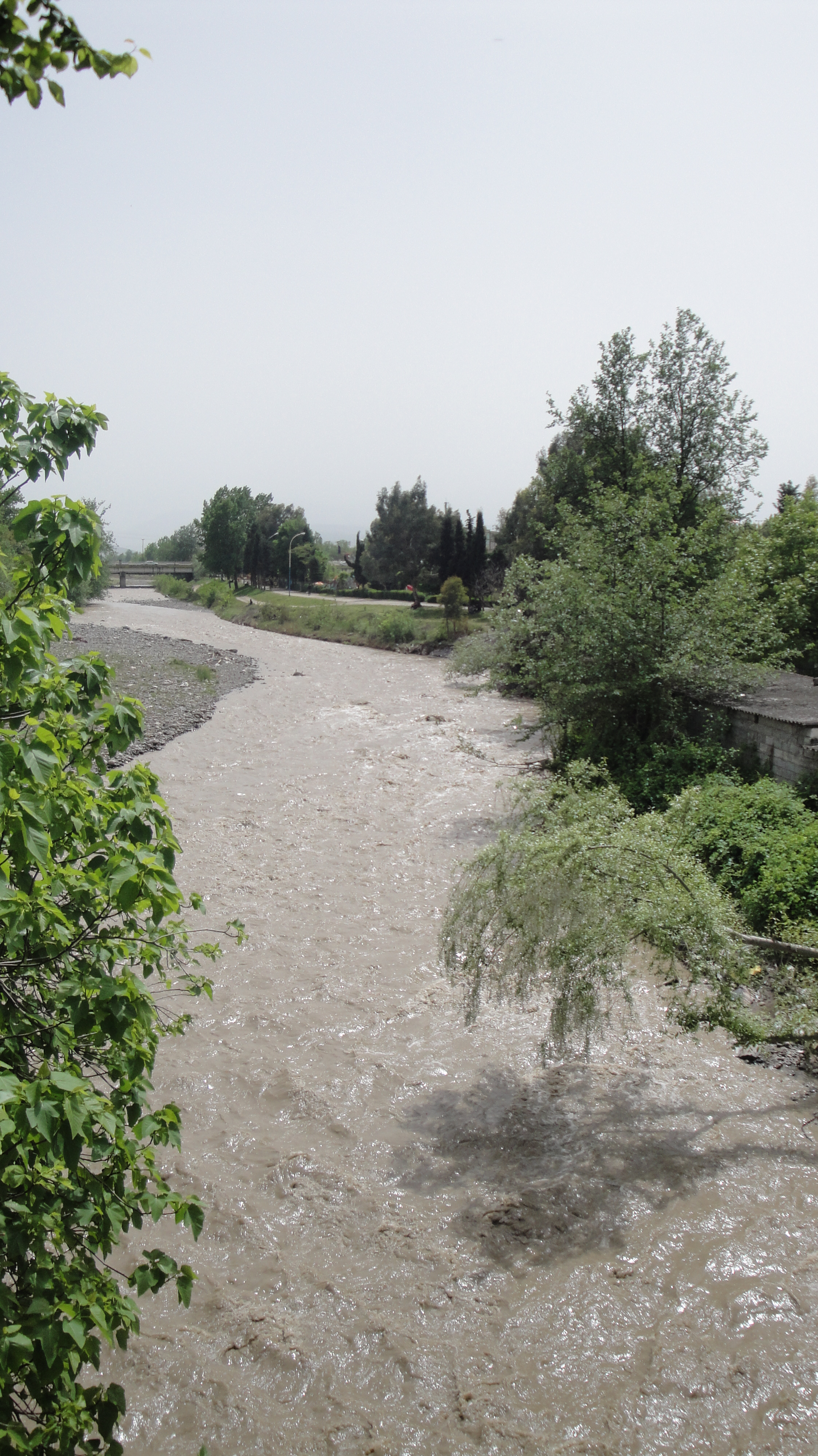 Haraz River in Amol City in Spring.